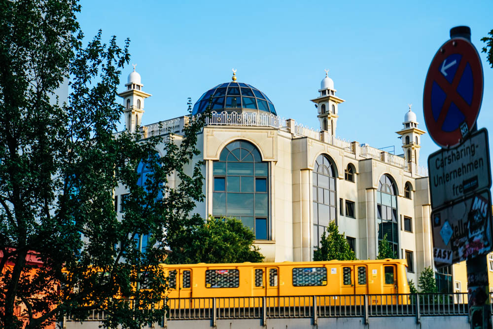 Mosque in Kreuzberg, Berlin, Germany